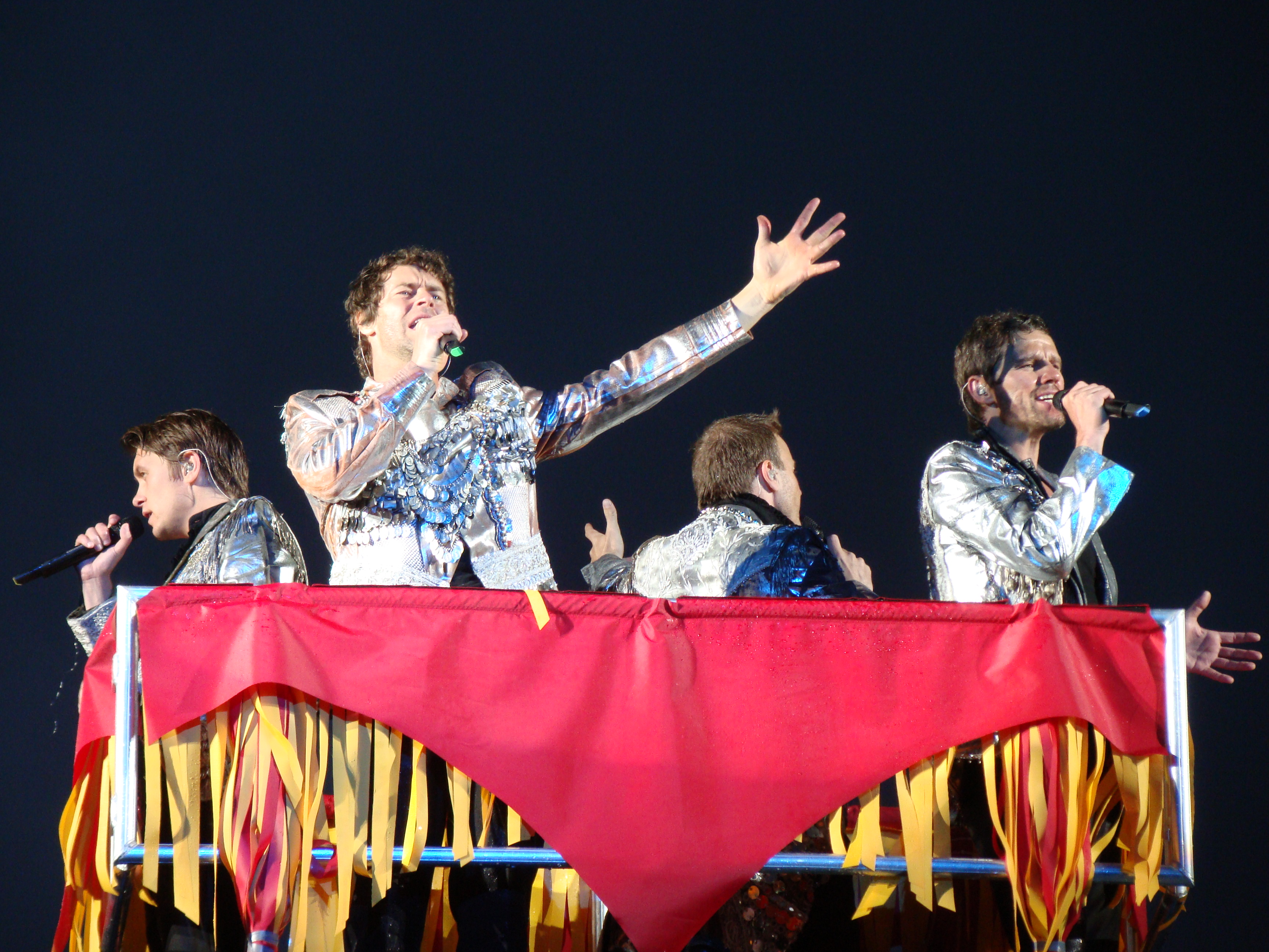 Take That on their 2009 The Circus tour.